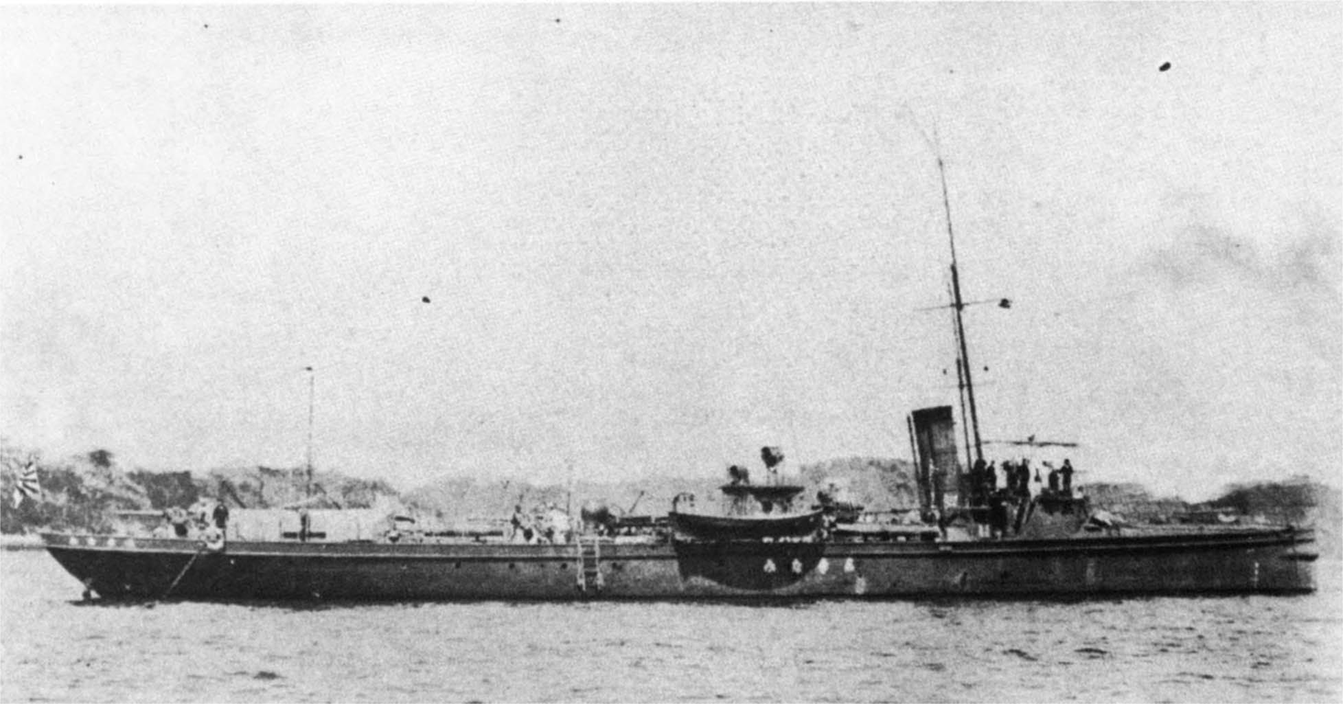 Inperial Japanese destroyer Sikinami, former Imperial Russian torpedo gunboat (Kazarskiy class torpedo cruiser) Gaydamak (service 1905-1914, 1892-1905 in Imperial Japanese Navy).